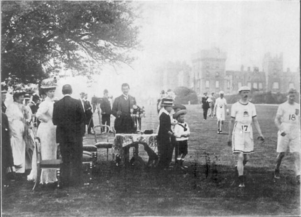 Marathon racers at Olympics 1908 are preparing themselves for a start